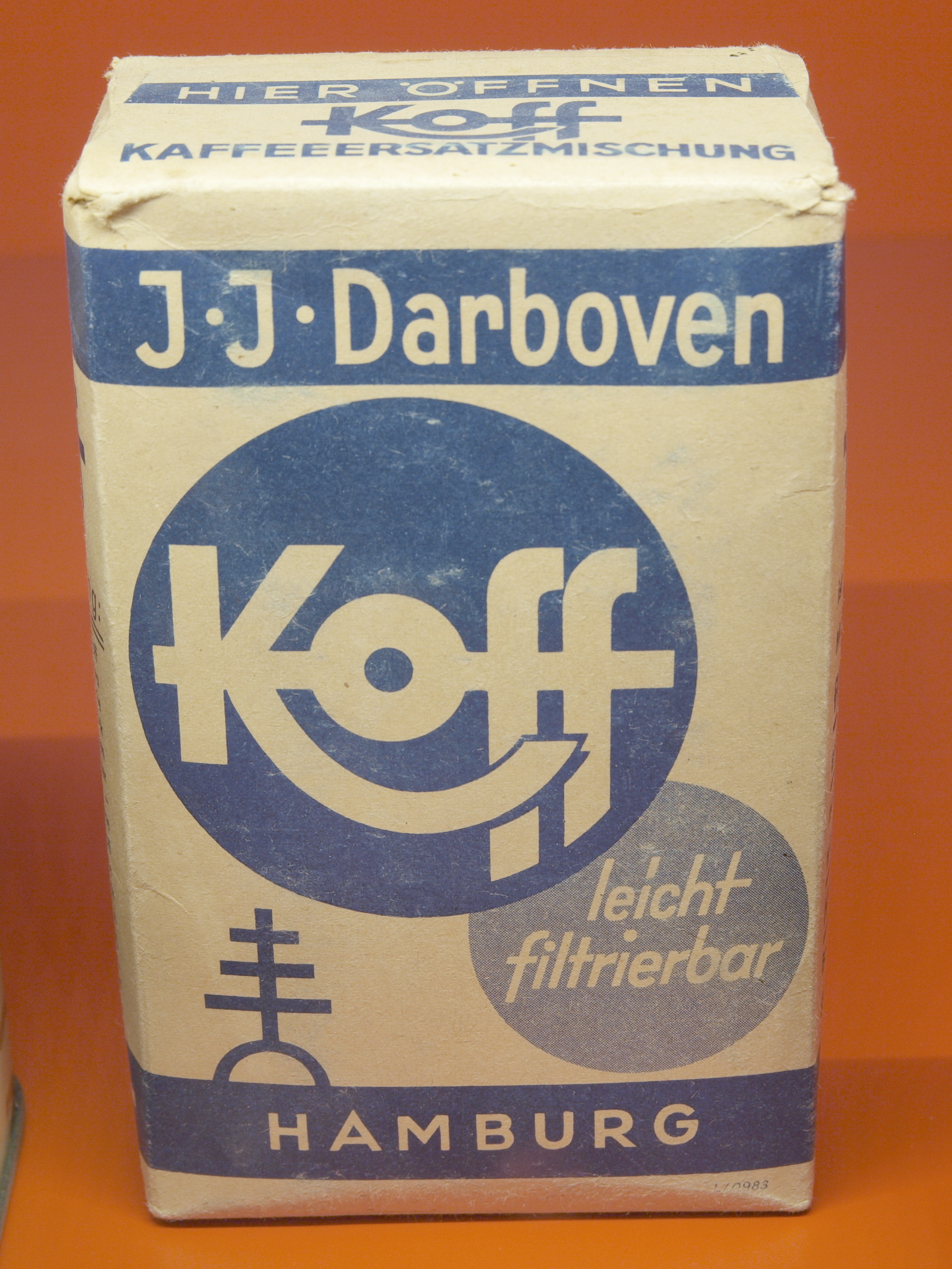 Koff coffee substitute of J. J. Darboven, Hamburg, Germany. Photographed at Museum für Hamburgische Geschichte, Hamburg, Germany